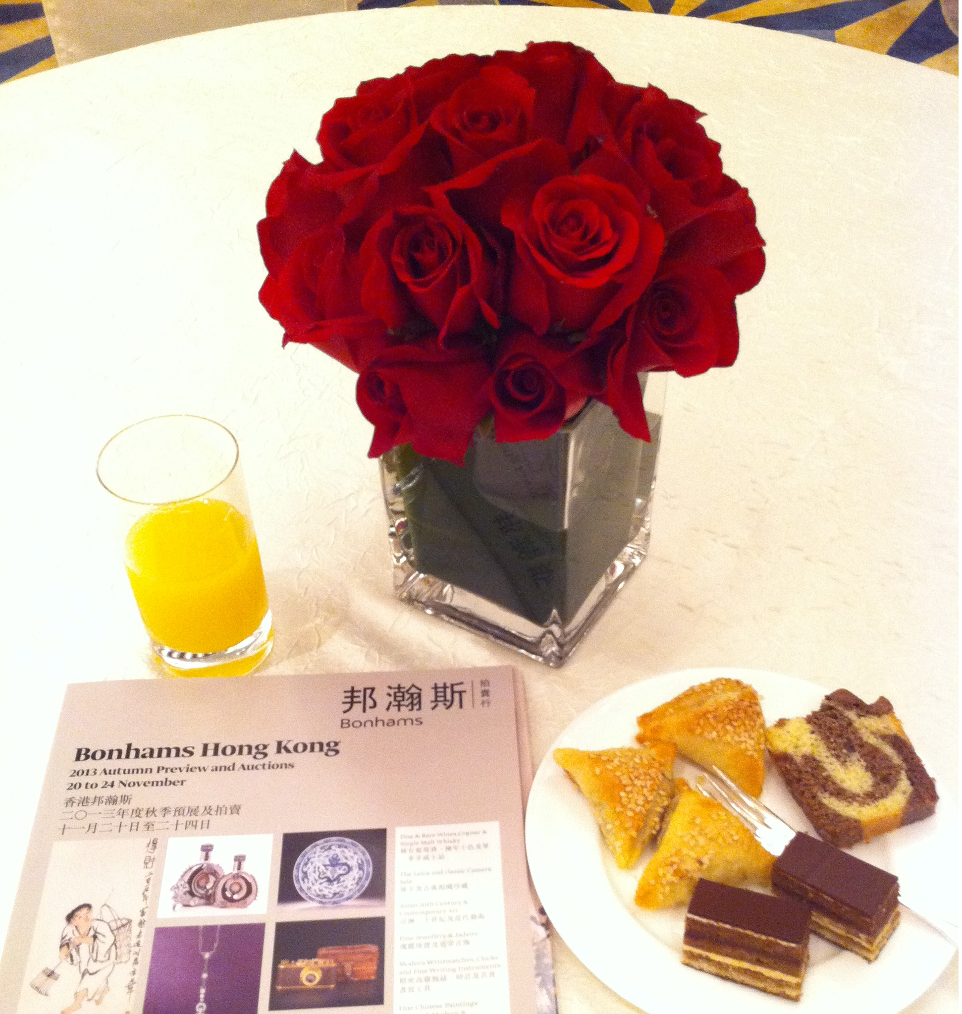 港島香格里拉酒店, Island Shangri-La Hotel, Queensway, Admiralty, Hong Kong